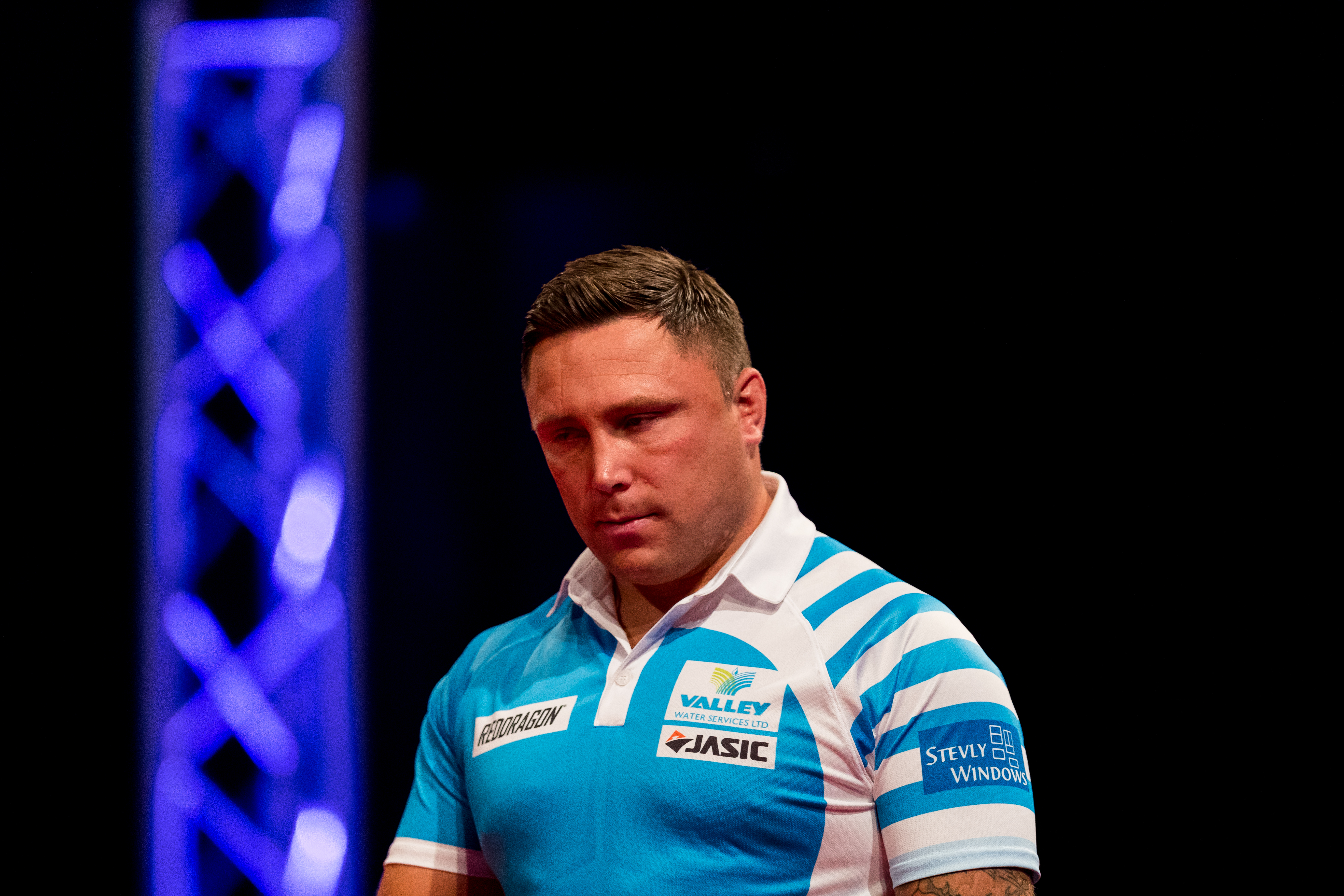 Gerwyn Price 6:3 Simon Stevenson during PDC Europe Darts Matchplay at Maimarkthalle, Mannheim, Baden-Württemberg, Germany on 2019-09-07, Photo: Sven Mandel